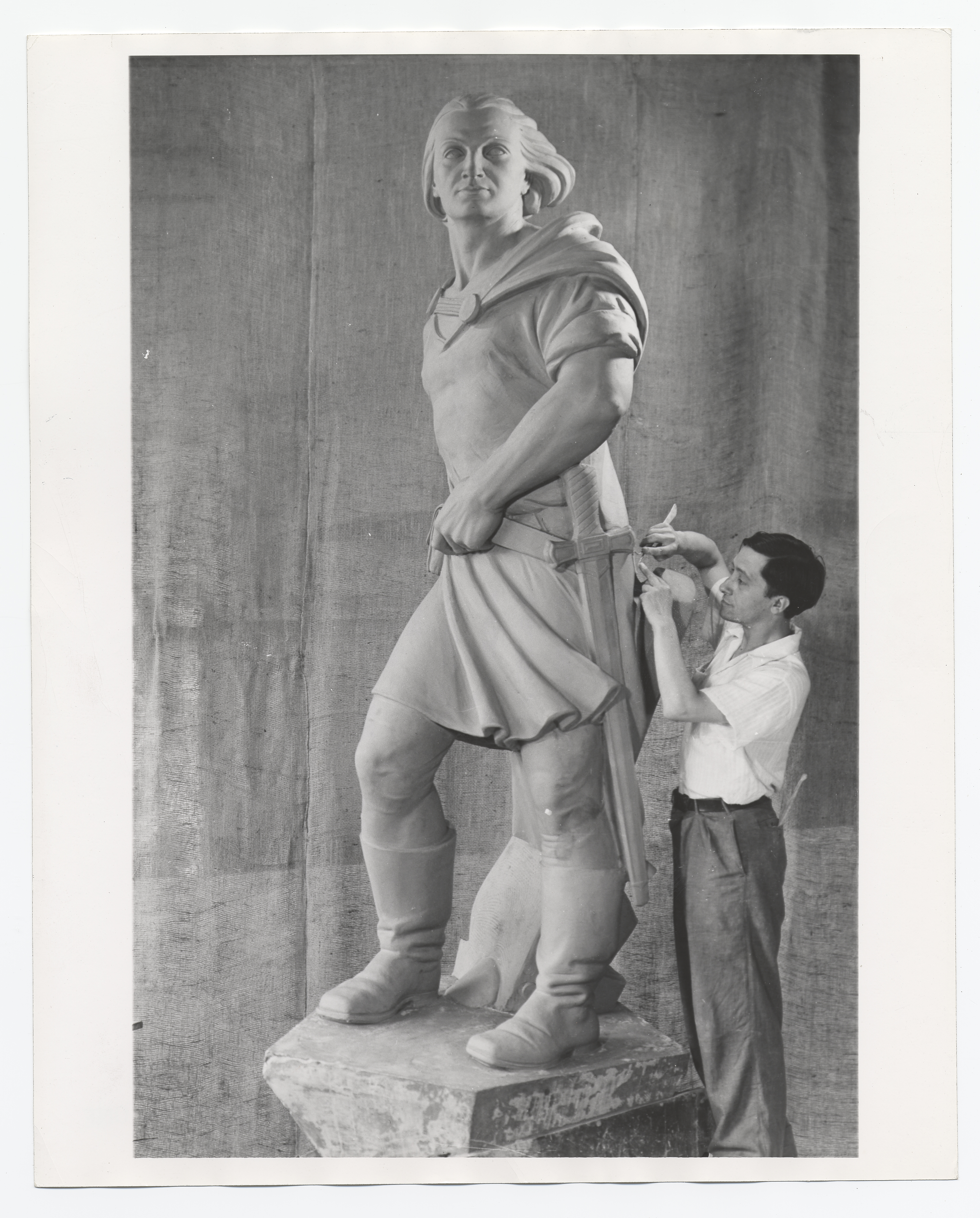 Racioppi working on a statue. Identification on verso (handwritten and stamped): Federal Art Project W.P.A.; Photographic Division; 110 King Street; New York City Neg. No.: 5355-6.